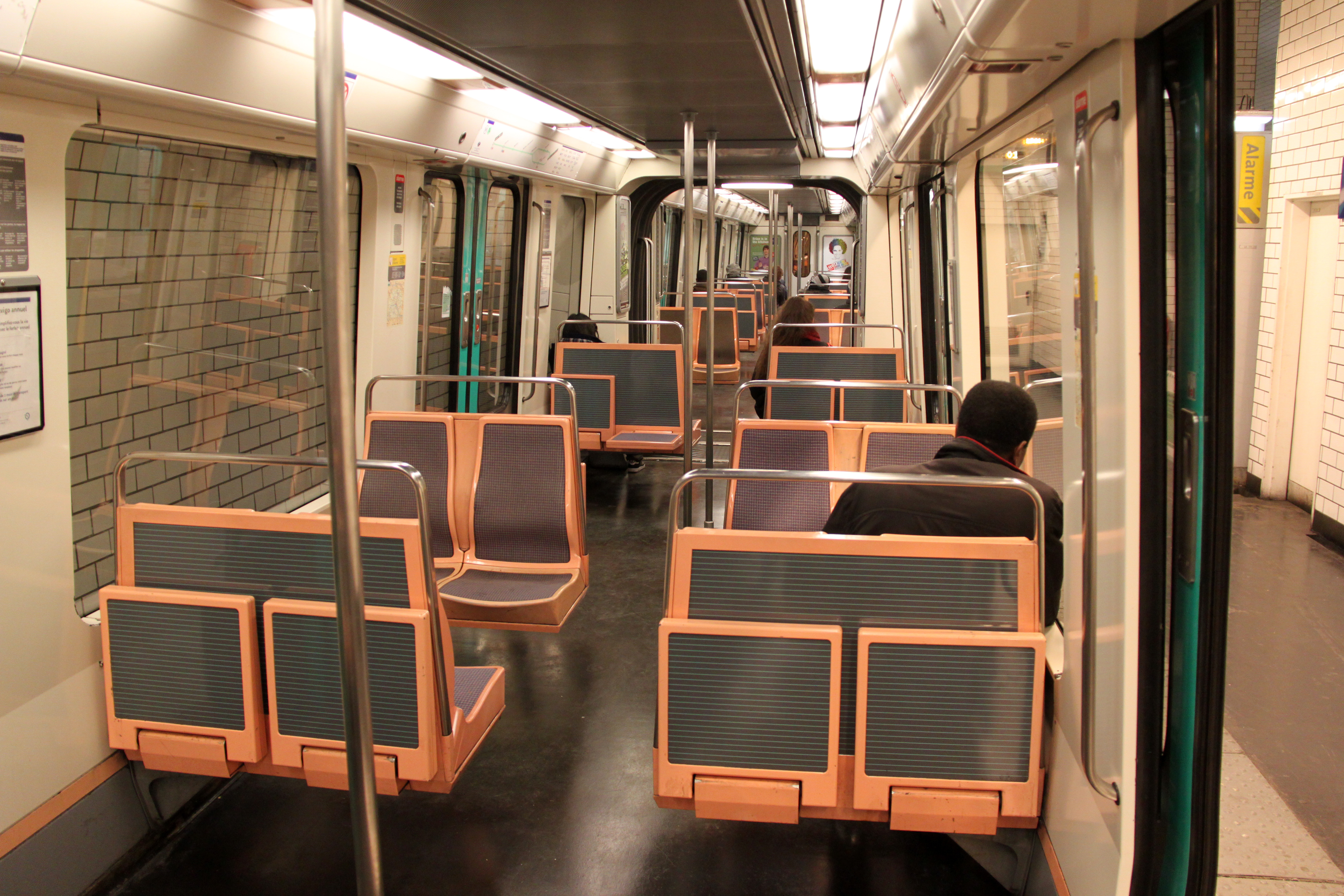 Interior of the MF88 stock of RATP metro Paris.